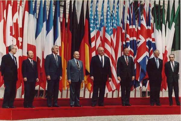 Leaders of Group of Seven posed for the photograph in Munich City, Bavaria Free State on July 6, 1992.